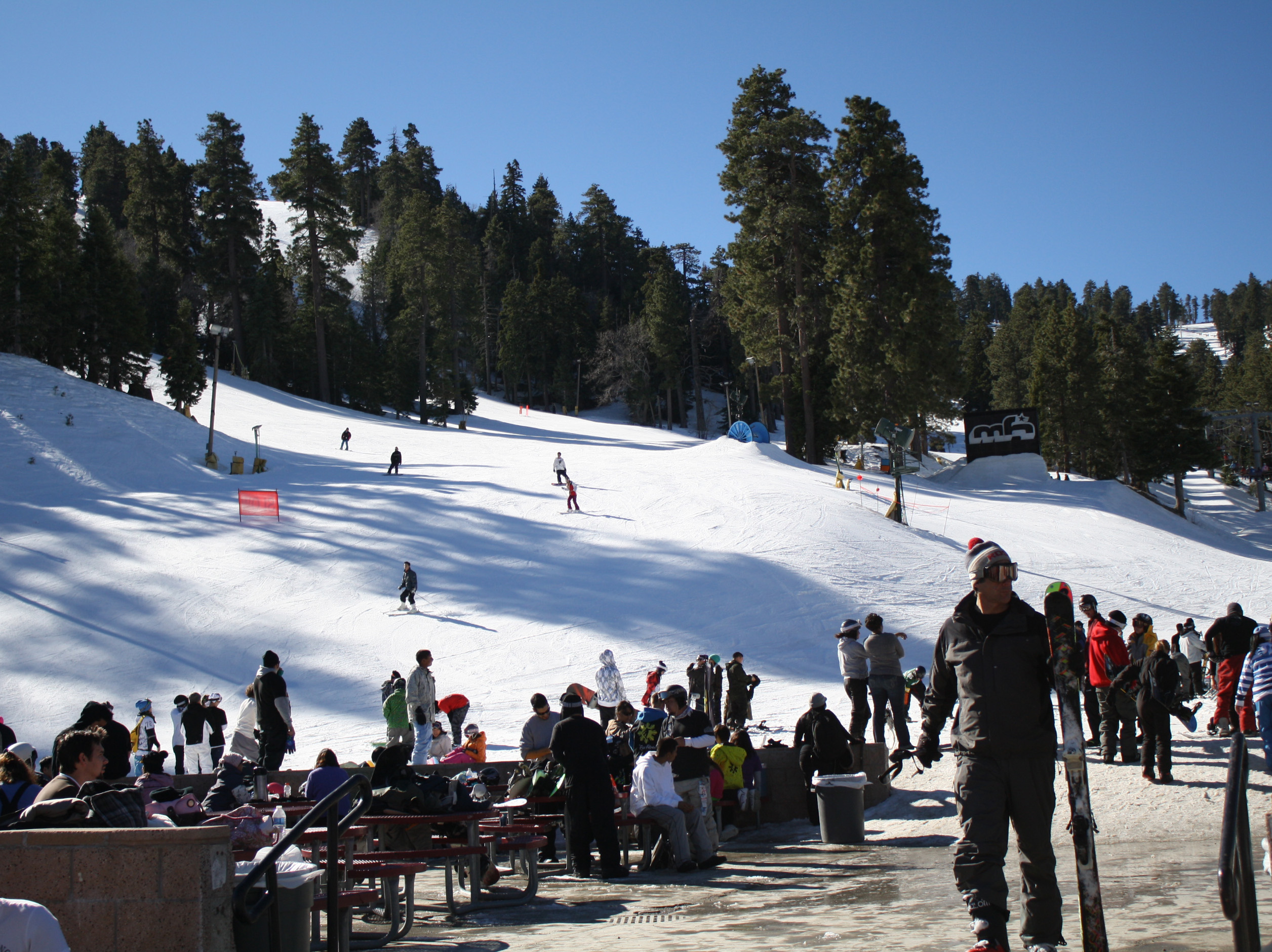 Mountain High winter resort in California